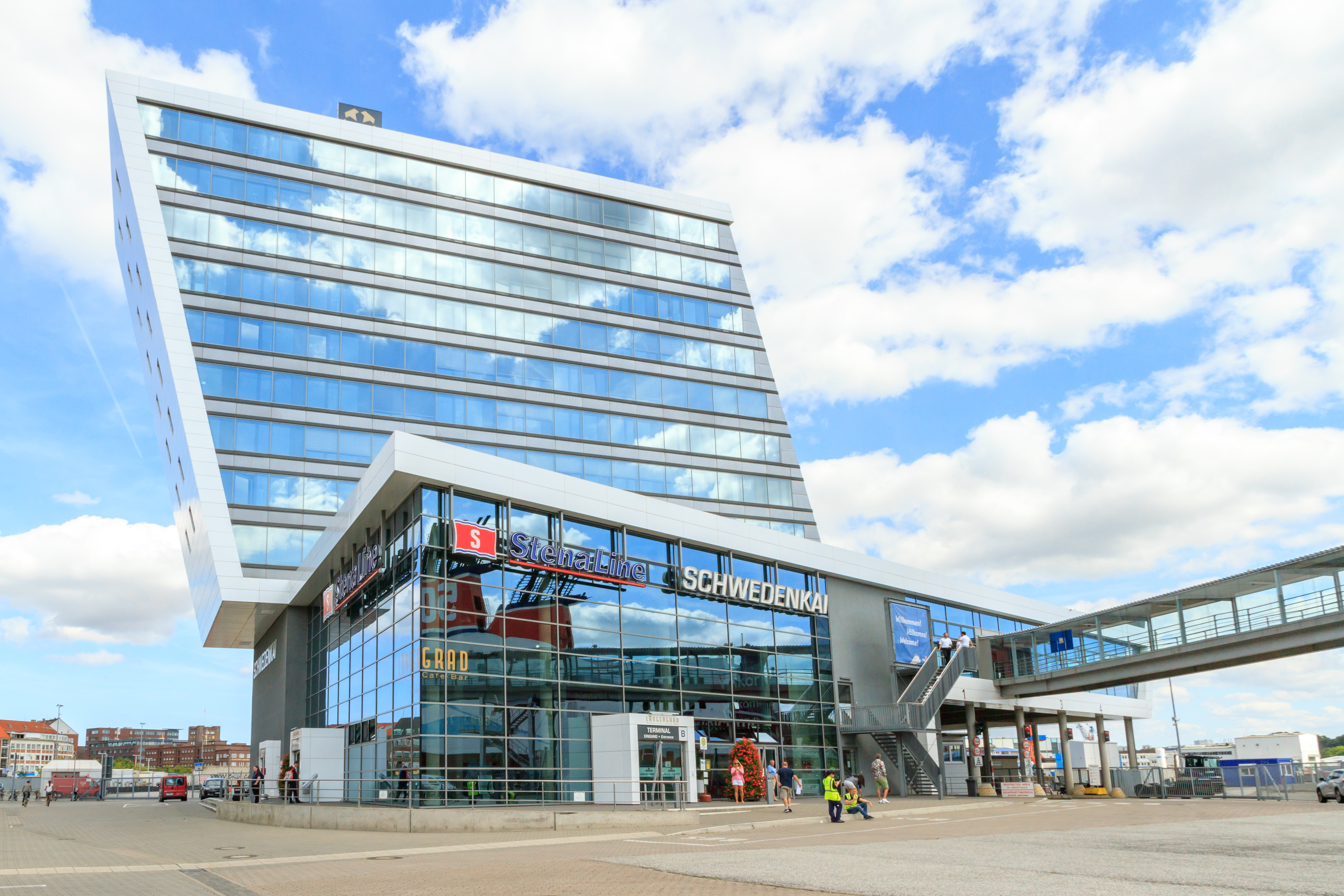 Schwedenkai: Kiel harbor with ferry lines to Gothenburg (Sweden)